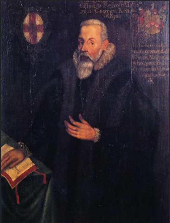 Thomas Sutton (1532–1611), founder of the Charterhouse, London. Portrait in collection of Charterhouse School, Godalming, Surrey.